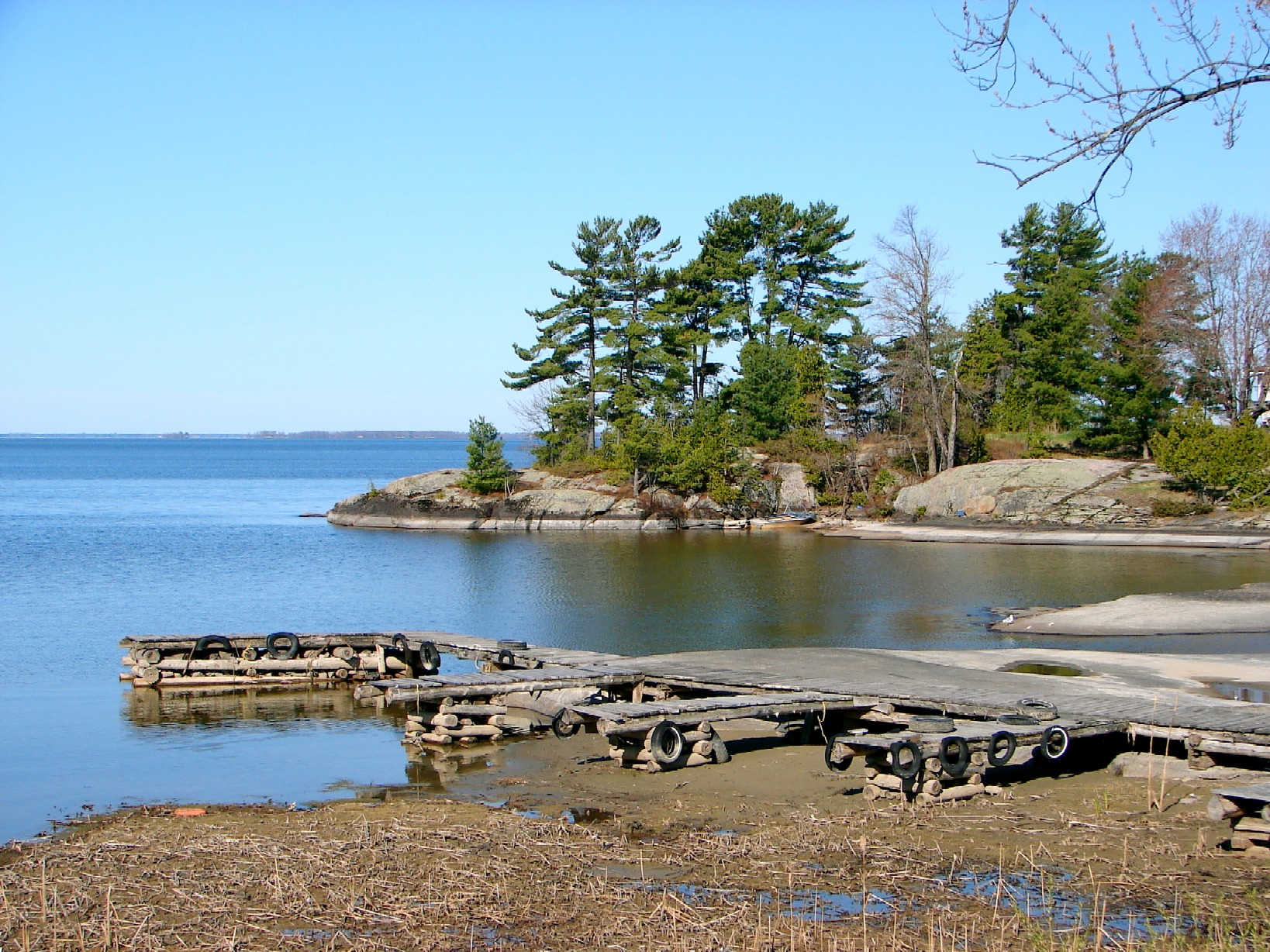 Garden Village with Lake Nipissing in background, Ontario, Canada